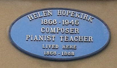 1856 - 1945. Composer Pianist Teacher. Lived here 1856 - 1868.